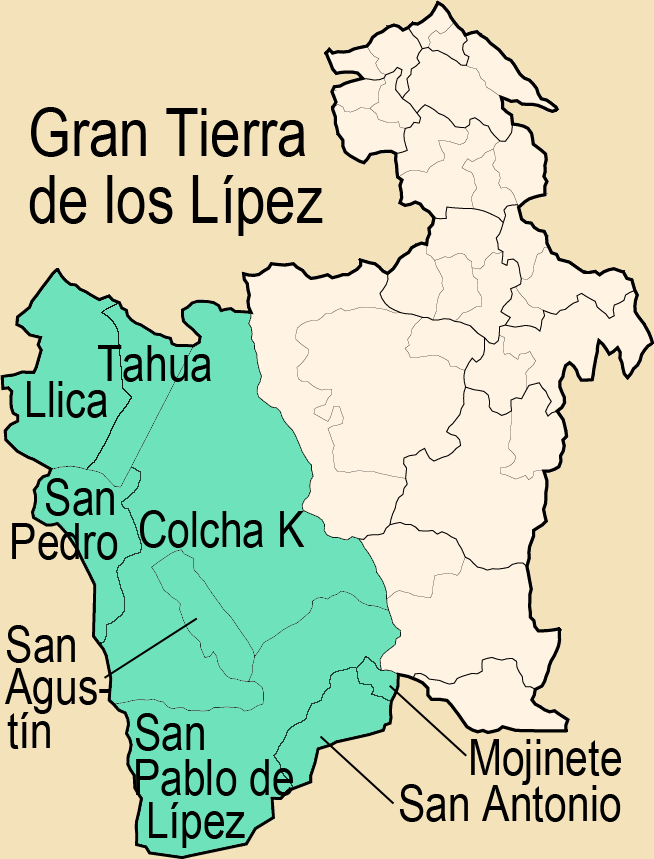 Map "Gran Tierra de los Lípez"